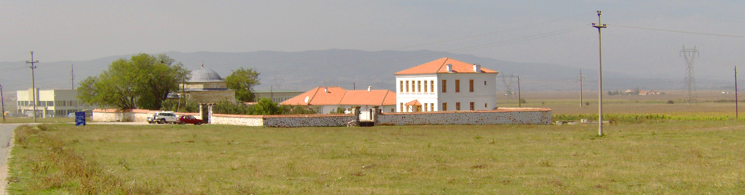 Tomb of Sultan Murad Khan I (Meşhed-i Hüdavendigâr): In 1389 where the Battle of Kosova I had began, this tomb established by Sultan Yıldırım Bayezid for his father great Turkish khan Sultan Murad Khan I. Sultan Murad Khan I was martyred here and his internal organs are buried here. (Republic of Kosova - Pristina Surroundings)